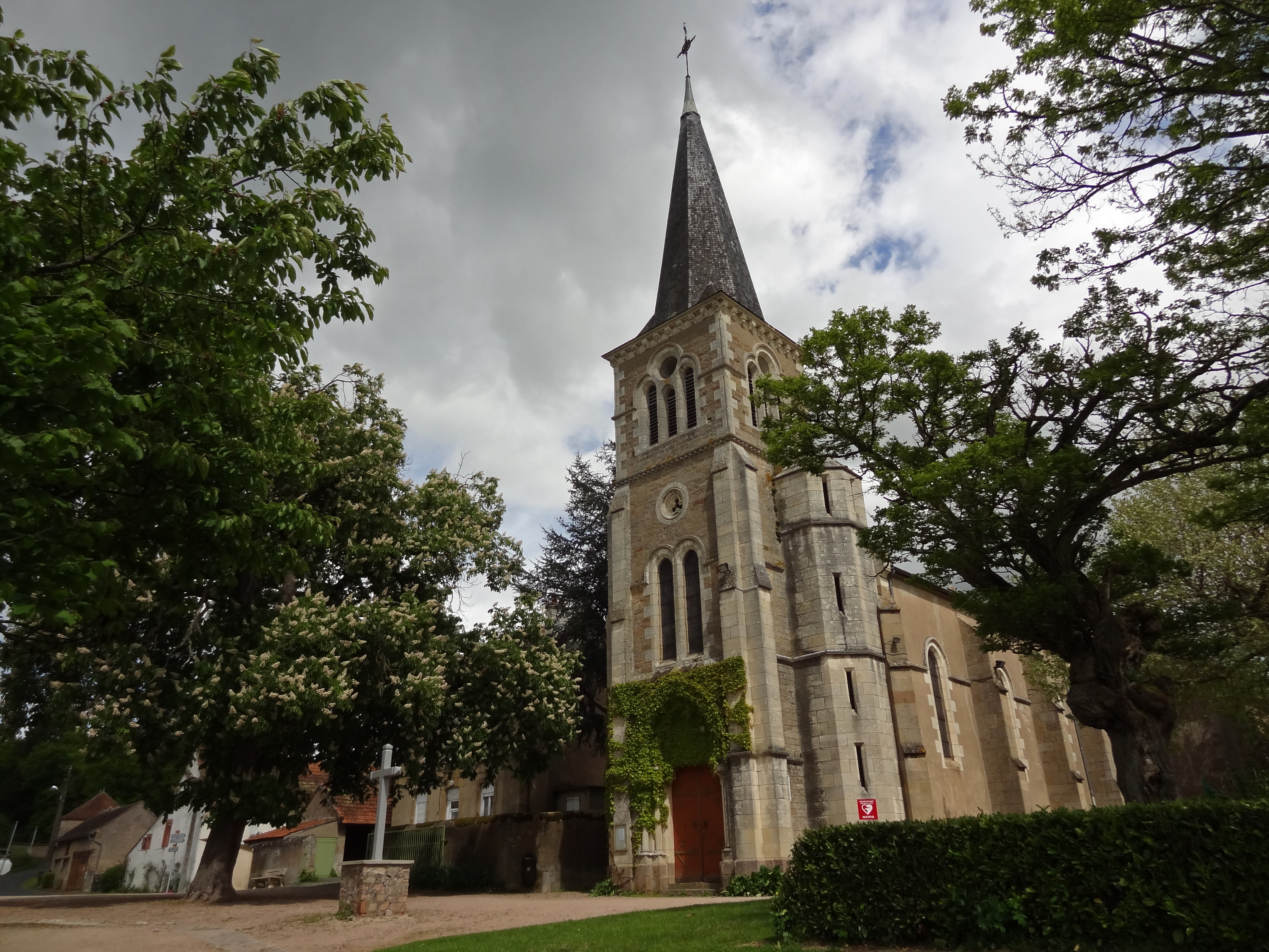 Saint-Léger church, Varennes-sur-Tèche, France